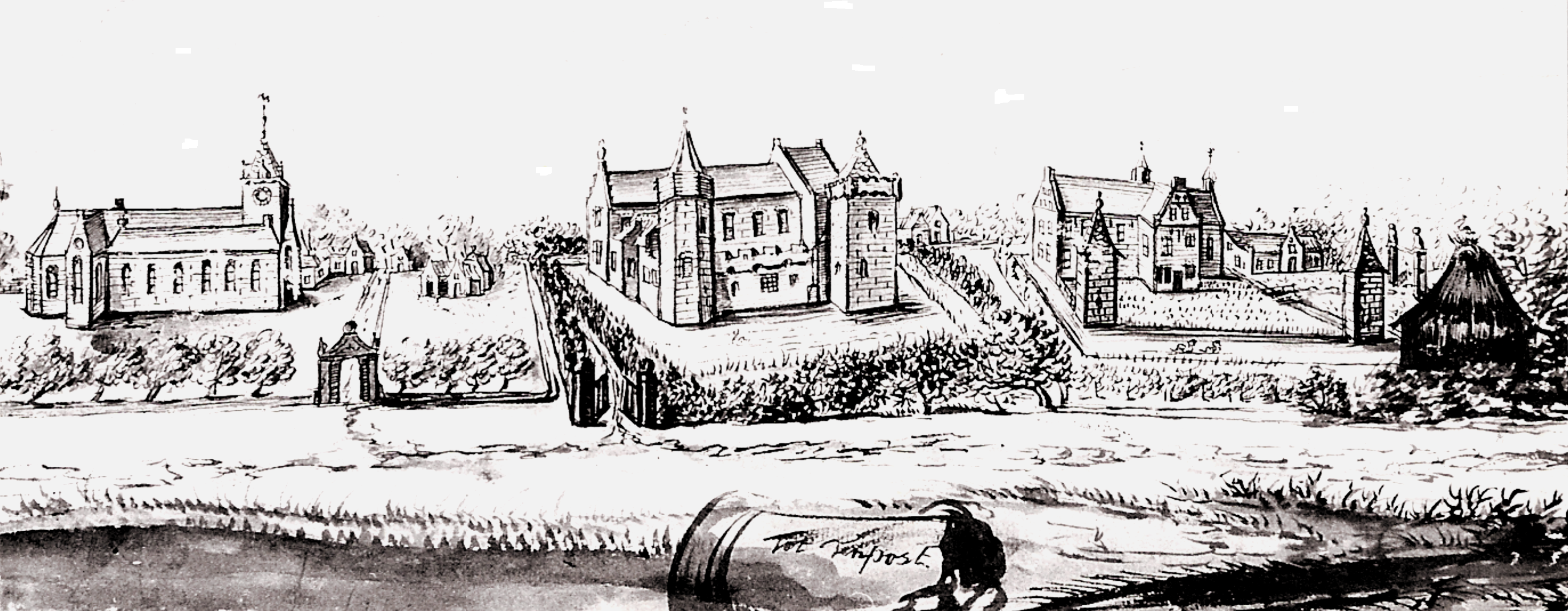 Wittewierum with the old church, Oldenhuis and Tuwinga